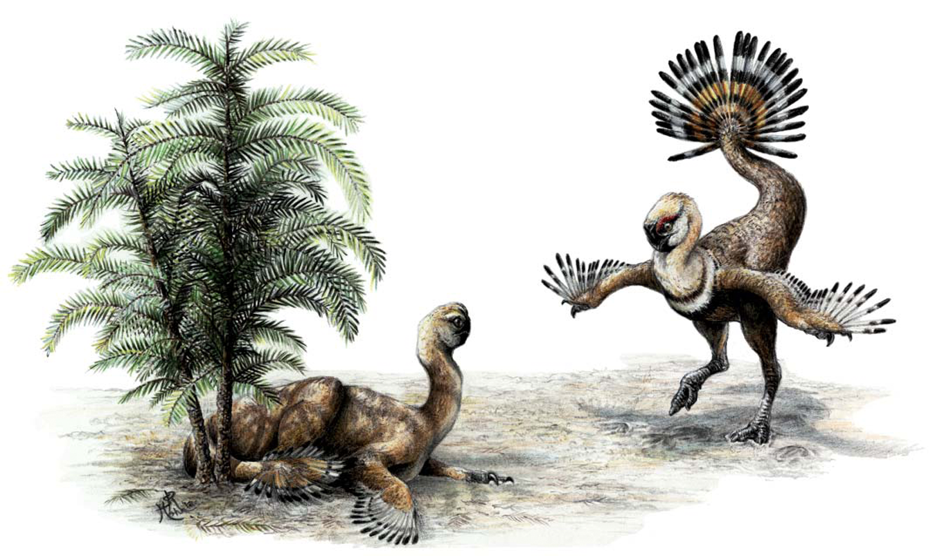 Life reconstruction of Ajancingenia yanshini, depicting a male with a tail-feather fan displaying for an onlooking female.